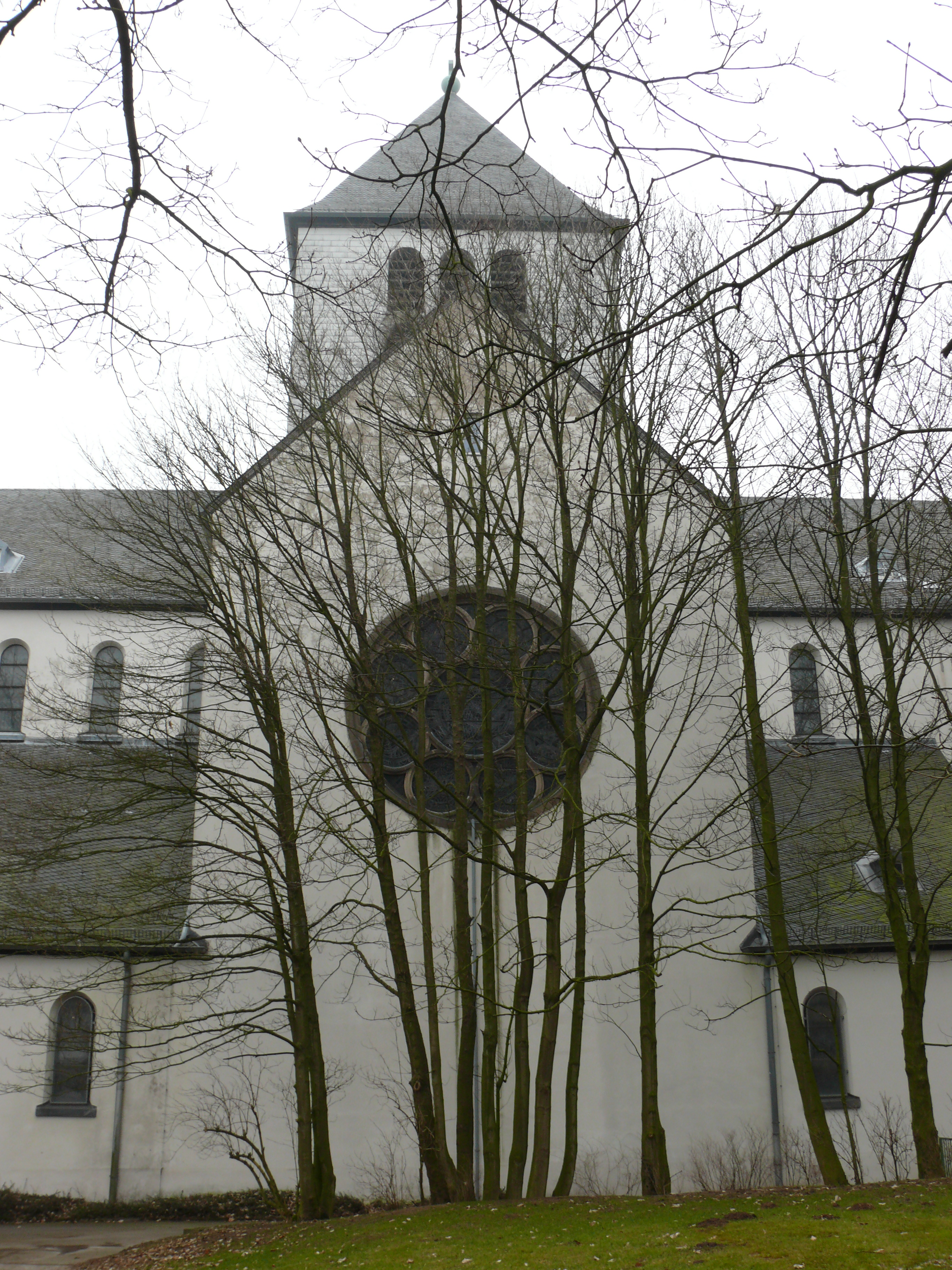 Kornelimünster near Aachen (Germany), new abbey church